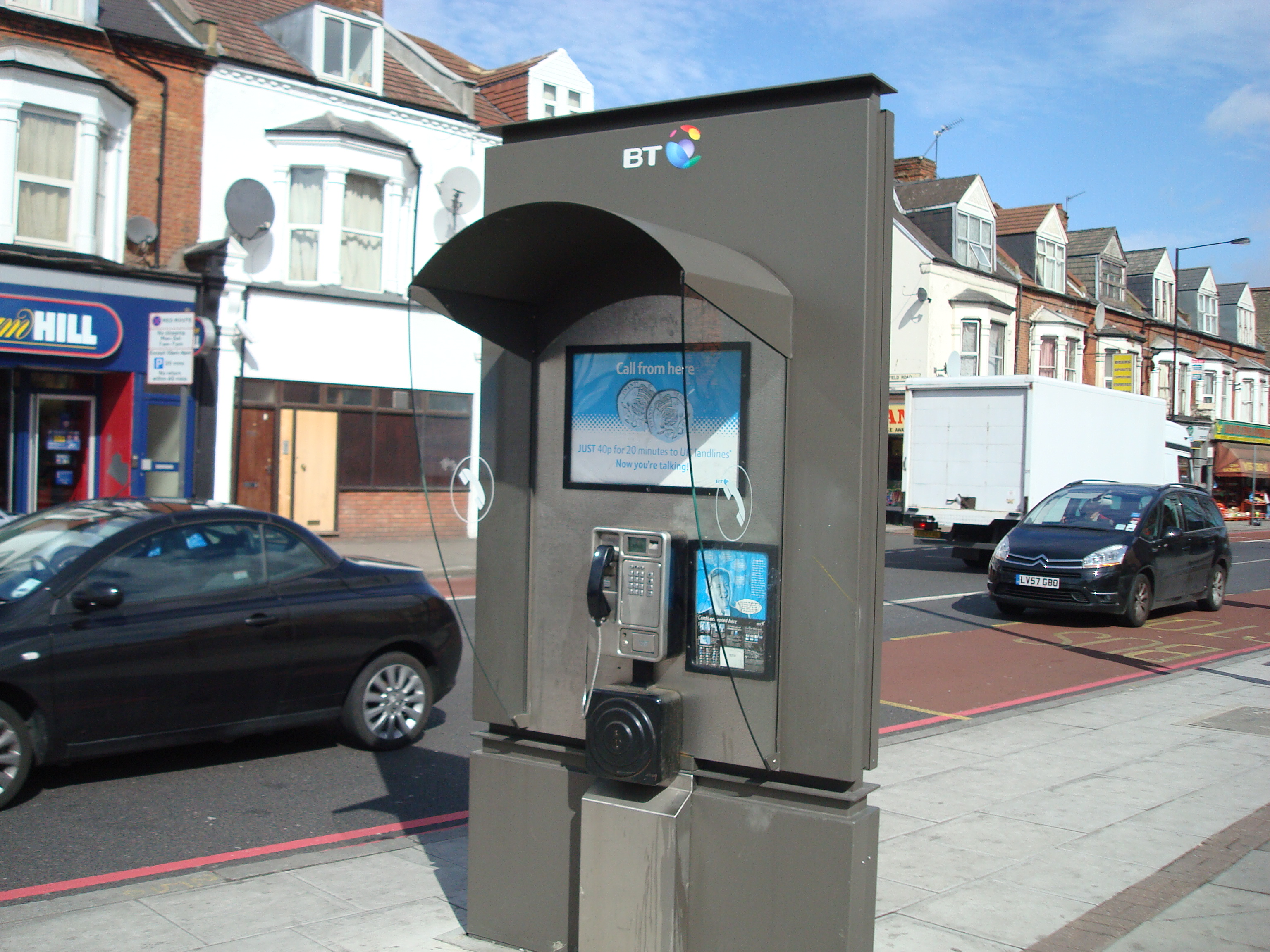 Telephone box, Seven Sisters Road, London N15